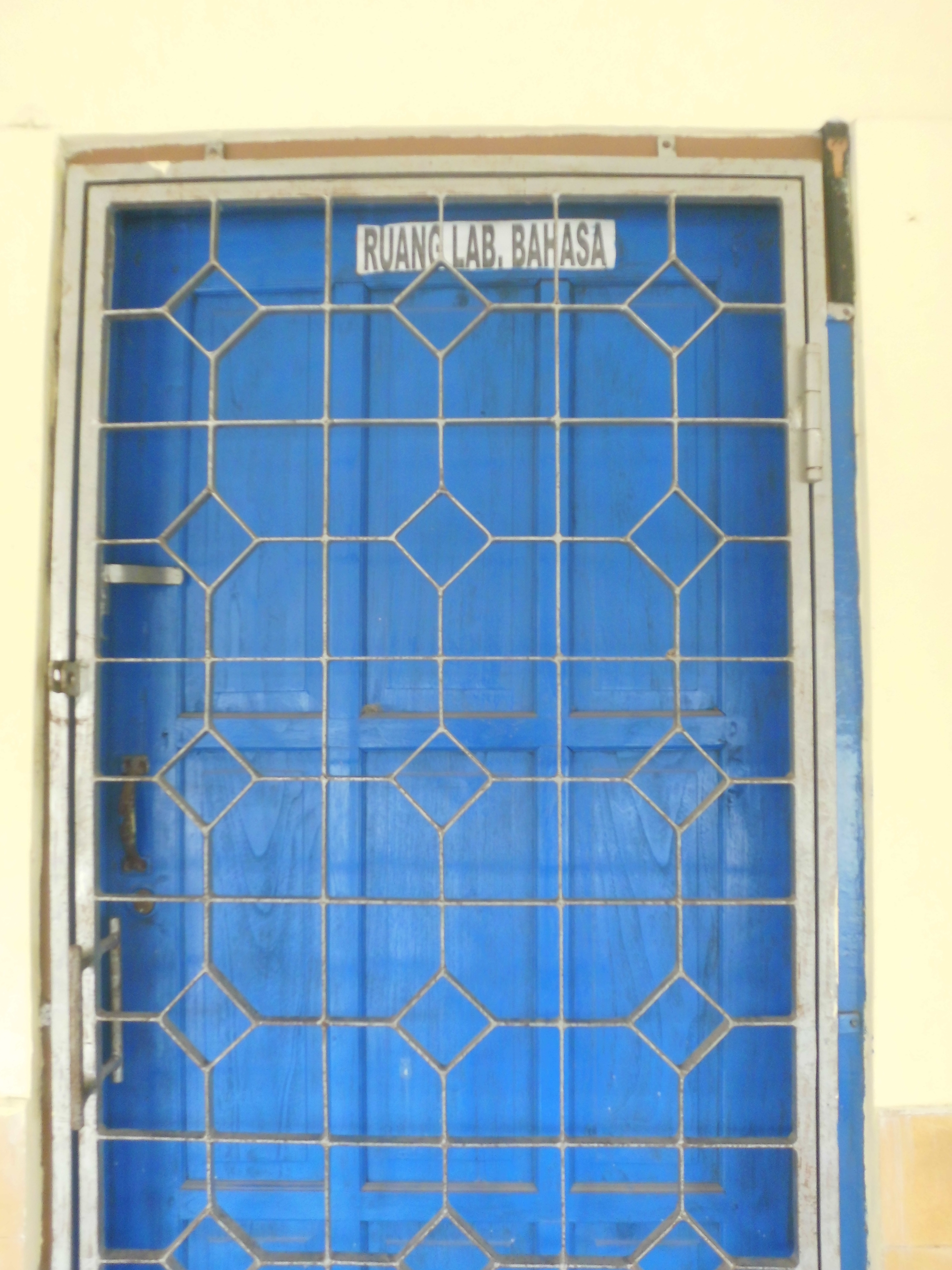 Language LaboratoryBahasa Indonesia: Laboratorium Bahasa